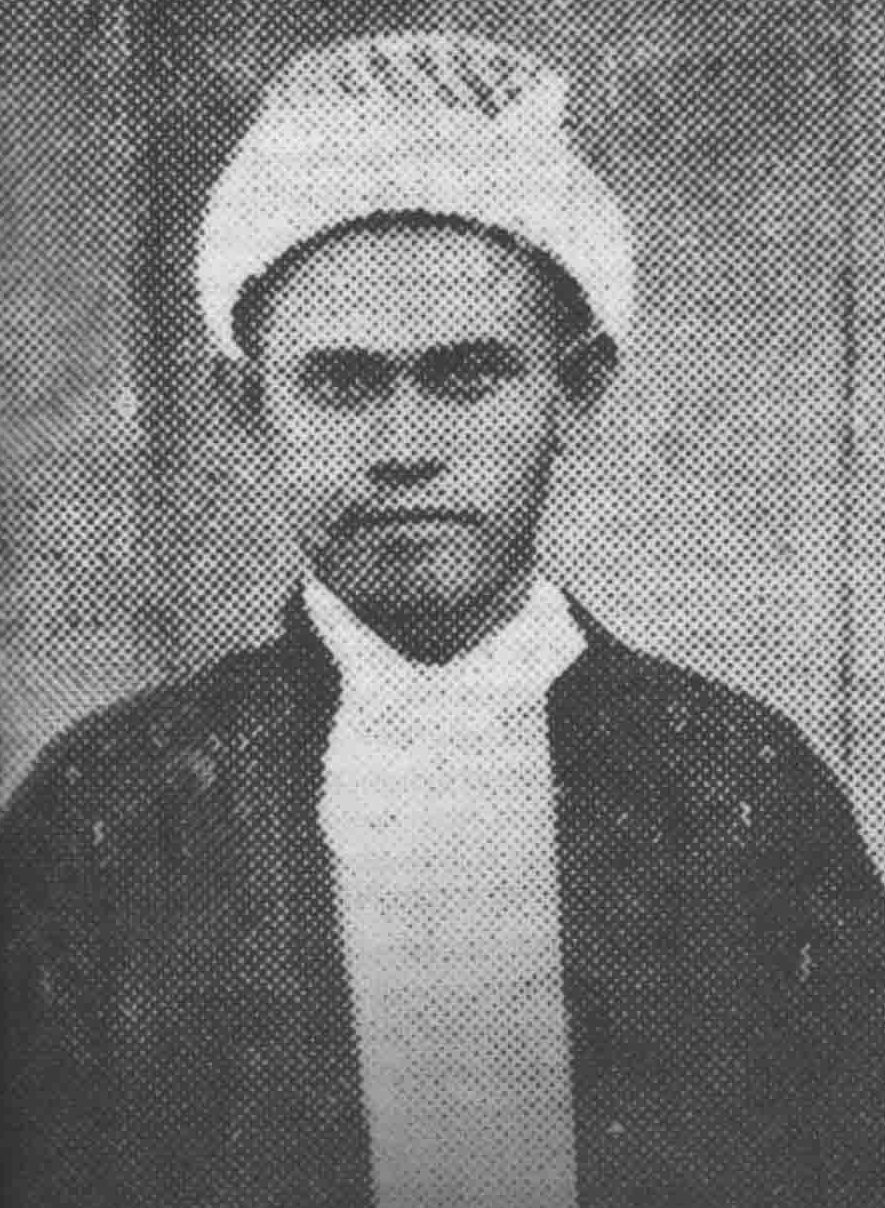 Brigjen K.H. Syam'un, regent of Serang Regency from 1945-1949